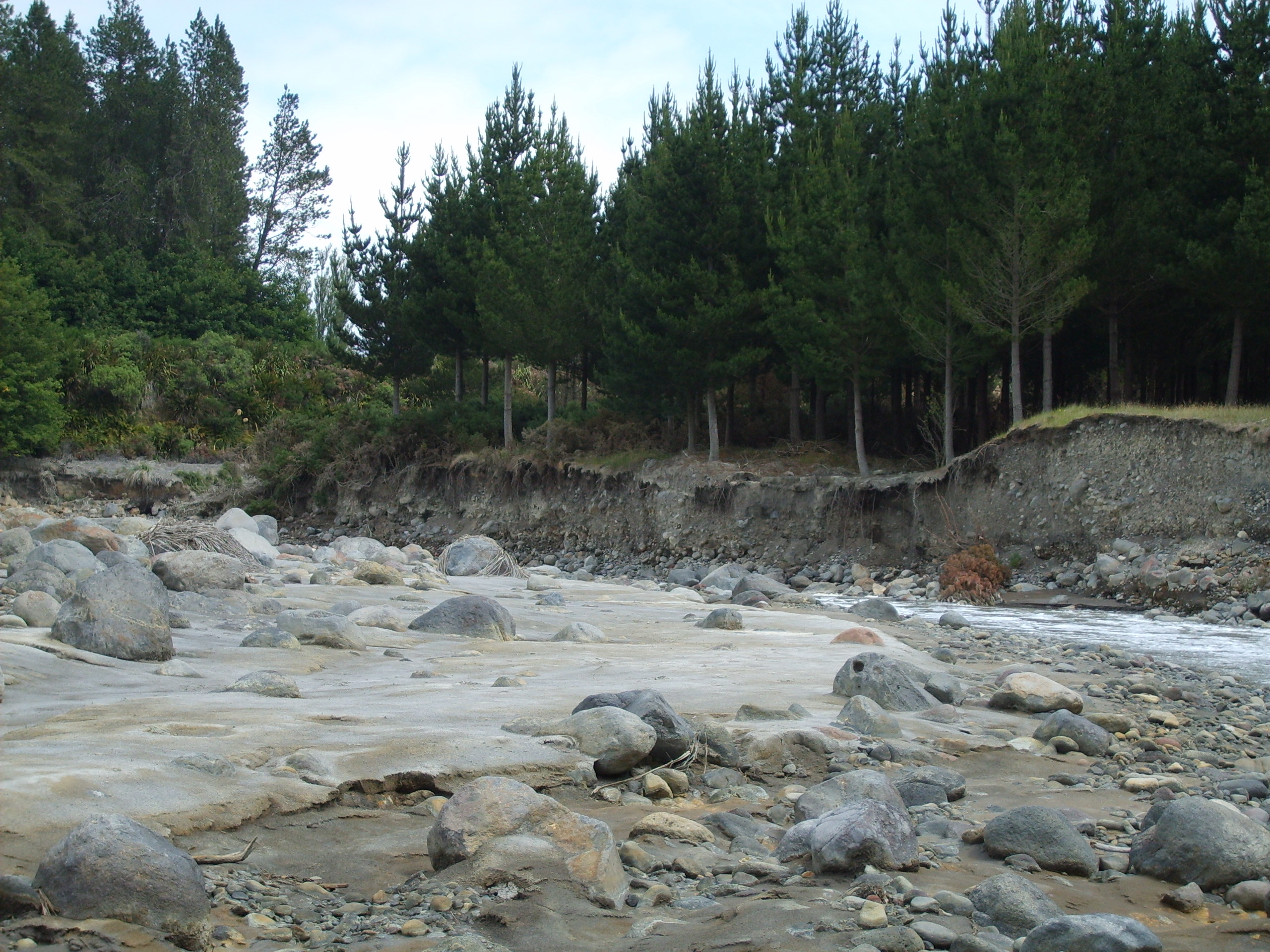 Whangaehu River near Tangiwai rail bridge taken January 2008 showing residual damage from March 2007 lahar